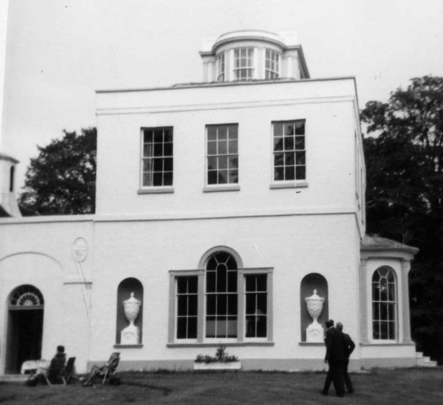 Bradwell Lodge, Bradwell-on-Sea. A Tudor house extended in 1781-6 by John Johnson, now Grade II* listed.[1] One of the two men walking at the right is Tom Driberg MP. Photo taken with an Instamatic 50 Camera on an open-day at the house.